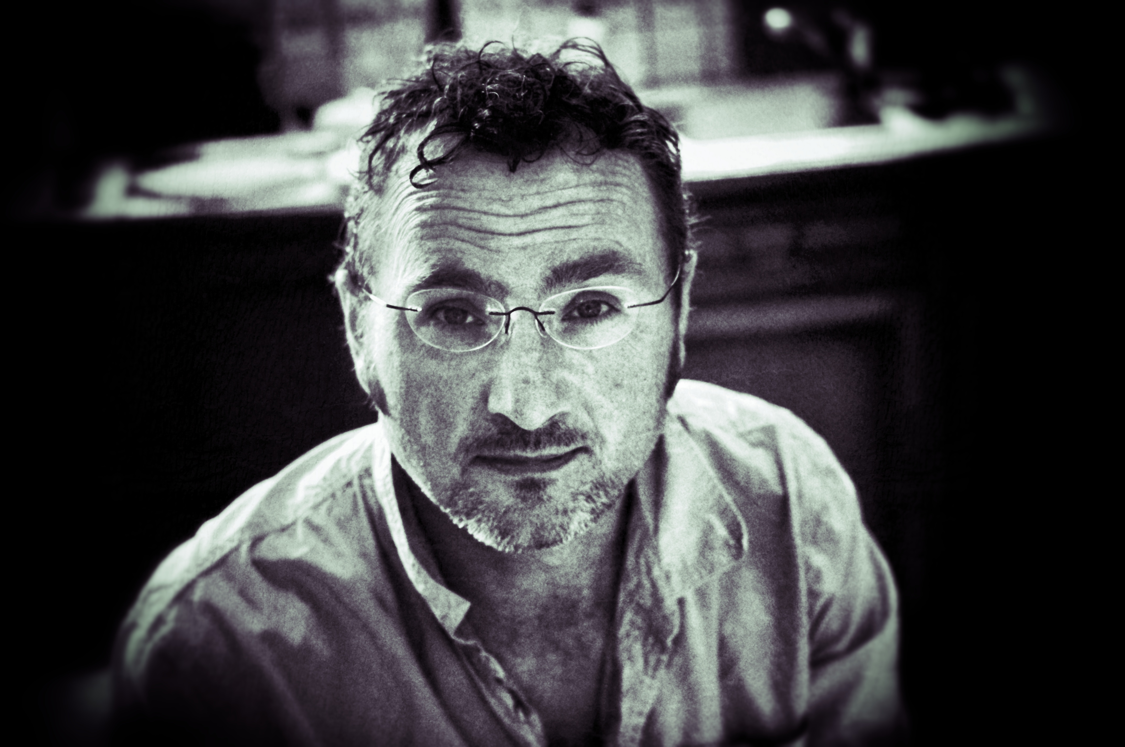 2015 photo from author's own collection